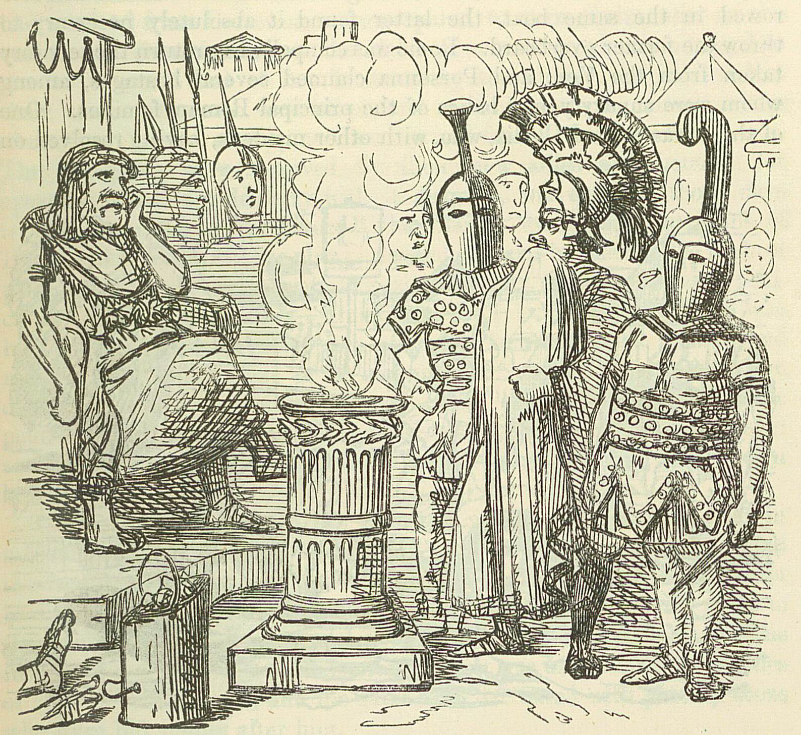 Image by John Leech, from: The Comic History of Rome by Gilbert Abbott A Beckett. Bradbury, Evans & Co, London, 1850s Mucius Scaevola before Porsenna